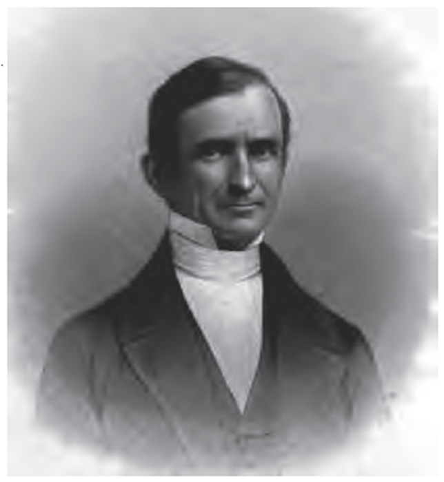 From: The Pioneer of American Missions in China; The Life and Labors of Elijah Coleman Bridgman by Eliza J. Gillett Bridgman; Anson D. F. Randolph; New York; 1864